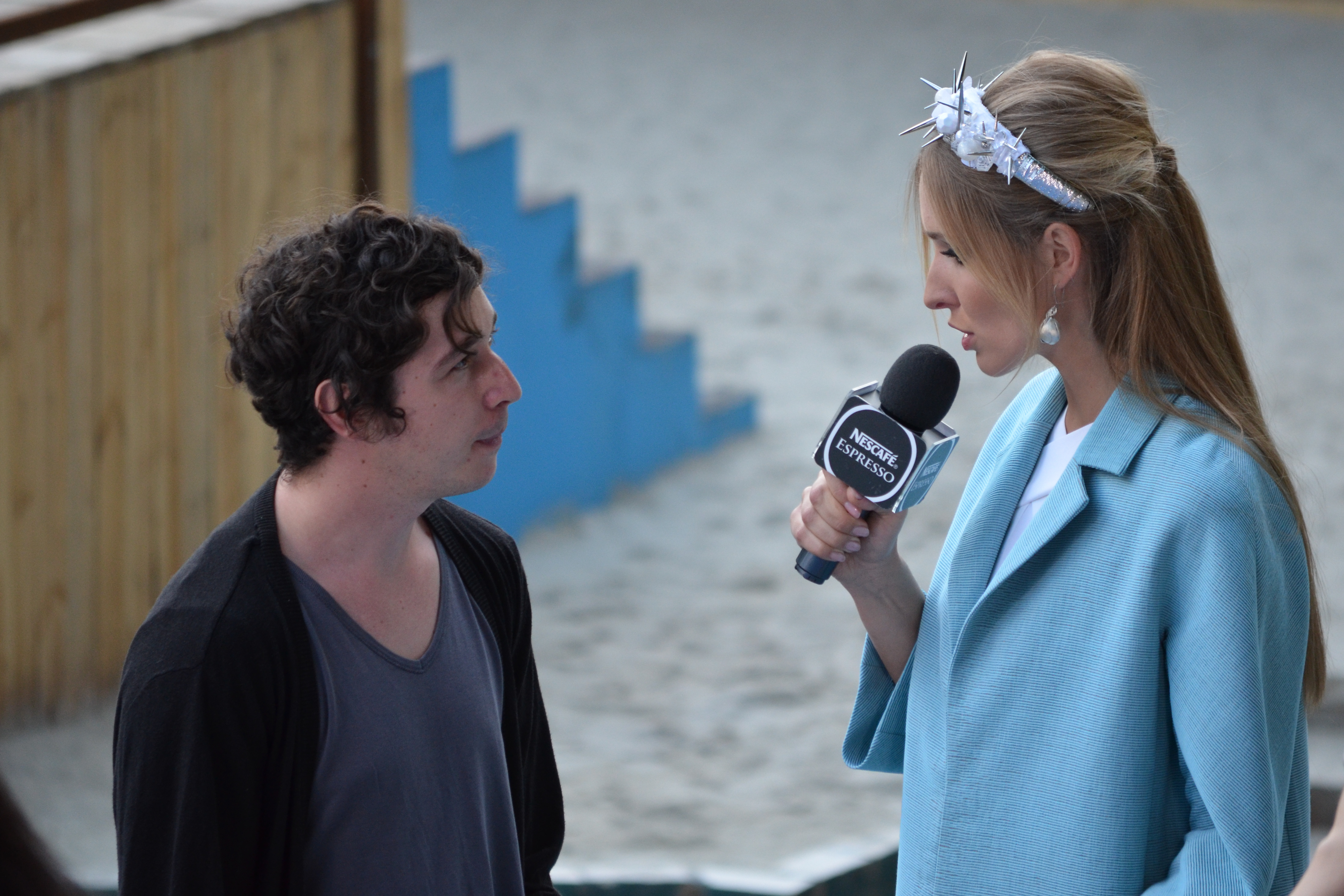 Pianoboy and Katya Osadcha in Green theatre